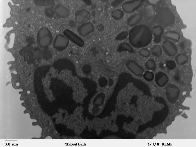 Transmission electron microscope image of a thin section cut through a human leukocyte of the type Eosinophil. Eosinophils contain eosinophil granules that are large(0.1-1.0micron) spherical, membrane-bound structures, containing a dense and lamellated crystalloid core.